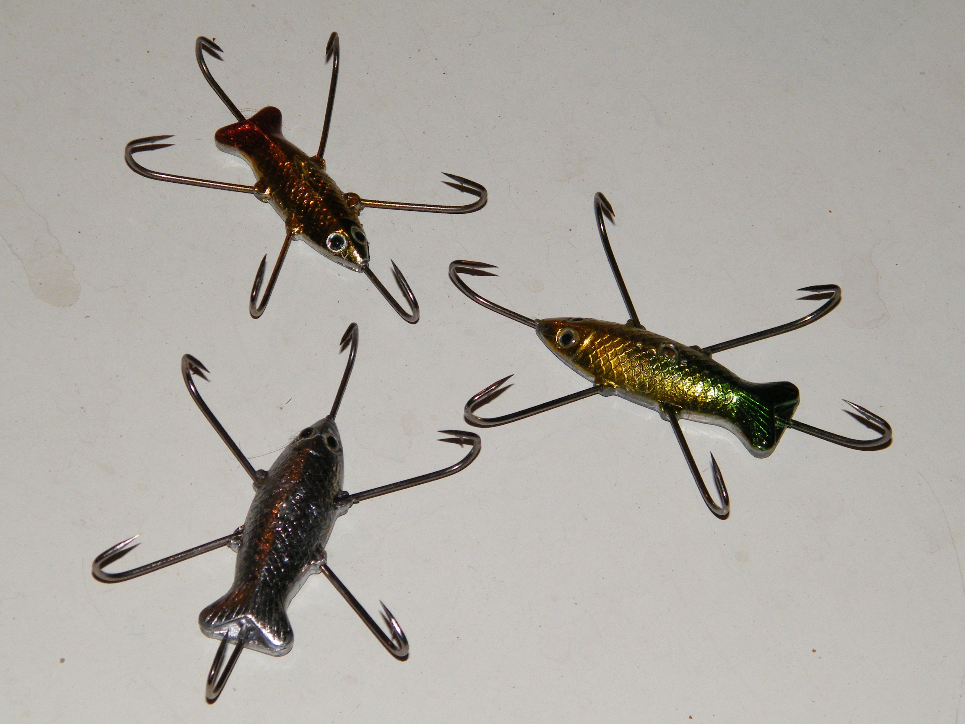 Fishing lure